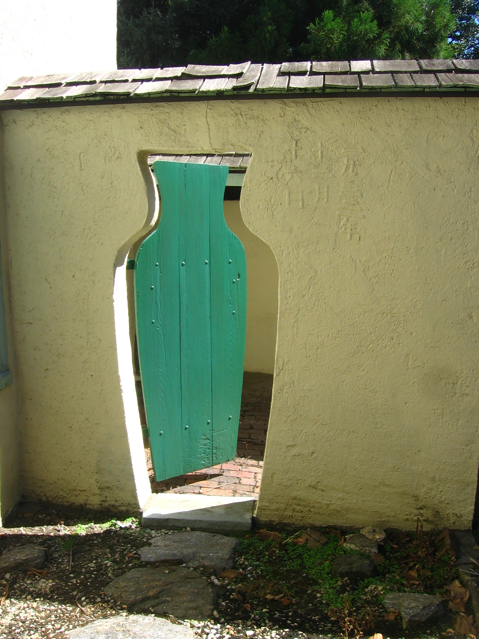 Gate of James and Sarah Starr's "Chinese Garden" on their Belfield Estate.